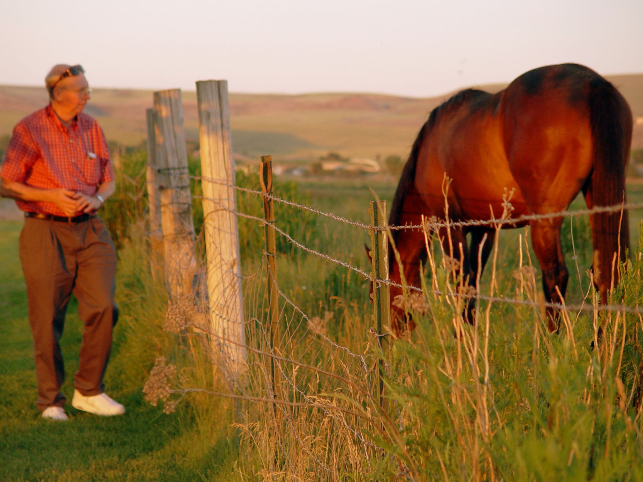 Feeding the Horses in Iona, Idaho